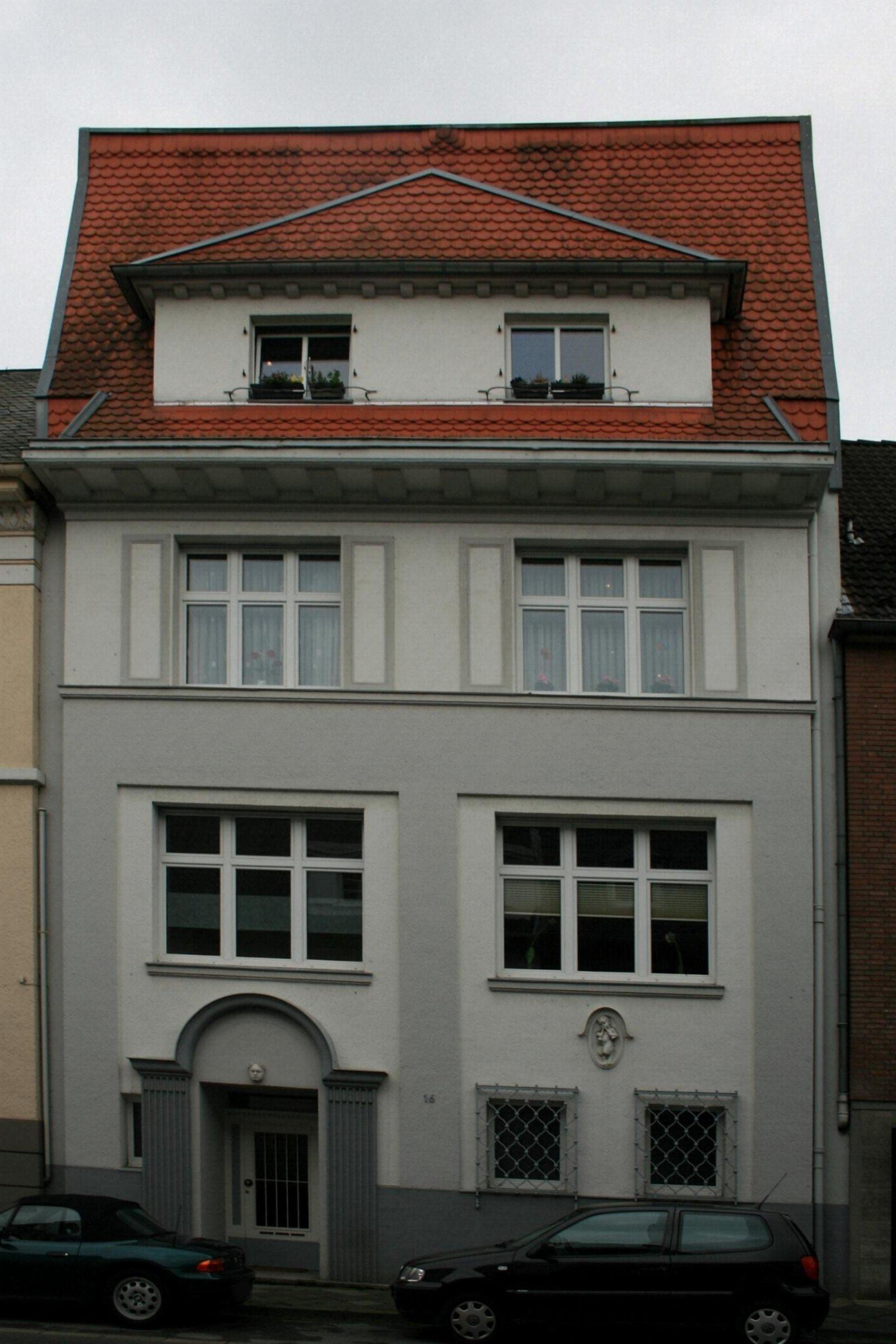 Cultural heritage monument No. B 150 in Mönchengladbach